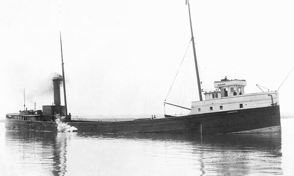 The steamer Marquette underway